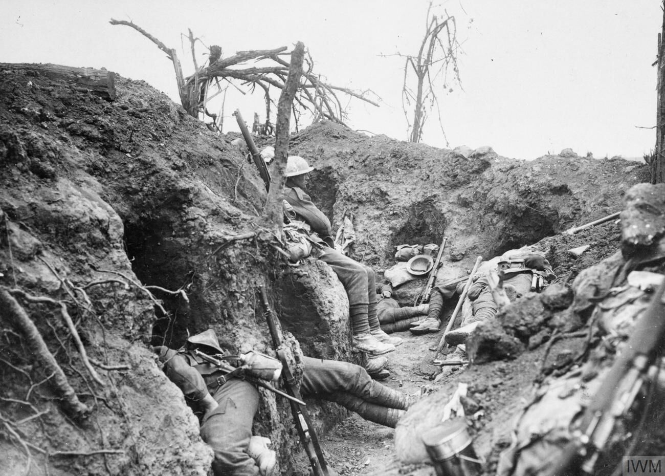 The Battle of the Somme, July-november 1916 Troops of the Border Regiment resting in a front line trench in Thiepval Wood, August 1916.